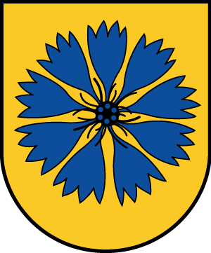 Coat of arms of Smiltenes novads, Latvia